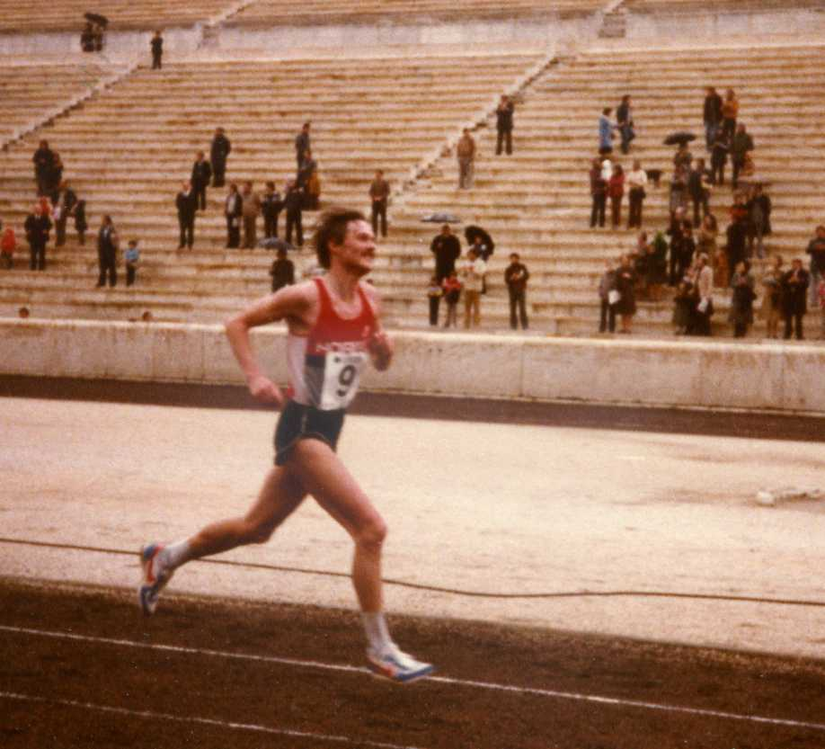 Inge Simonsen finishing the Citizen Golden Marathon on 7th March 1982 in 2 hours 15 minutes & 6 seconds for 6th place. The finish line is in the Panathinaikon Stadium.